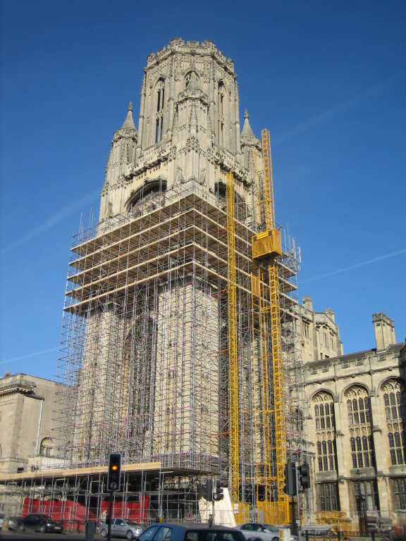 Scaffolding-covered tower of the Wills Memorial Building, University of Bristol.